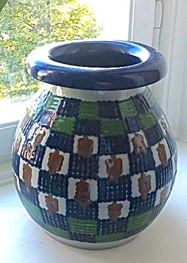 Ceramic urn by Finnish designer and artist Elsa Elenius.